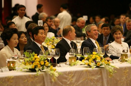 President Roh Moo-hyun of South Korea, and his wife Yang-Sook Kwon, at the Gala Dinner and Cultural Performance at the National Convention Center in Hanoi during the 2006 APEC summit Friday night, Nov. 18, 2006, with President Vladimir Putin of Russia, and U.S. President George W. Bush and Mrs. Laura Bush. (Prime Minister Helen Clark of New Zealand was cropped off this picture as the original image seems blurry there.) White House photo by Eric Draper.